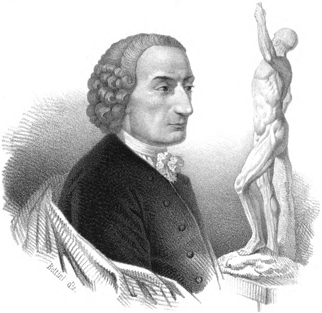 Ercole Lelli (1702-1766), italian anatomyst and painter, from a drawing of Cesare Bettini.